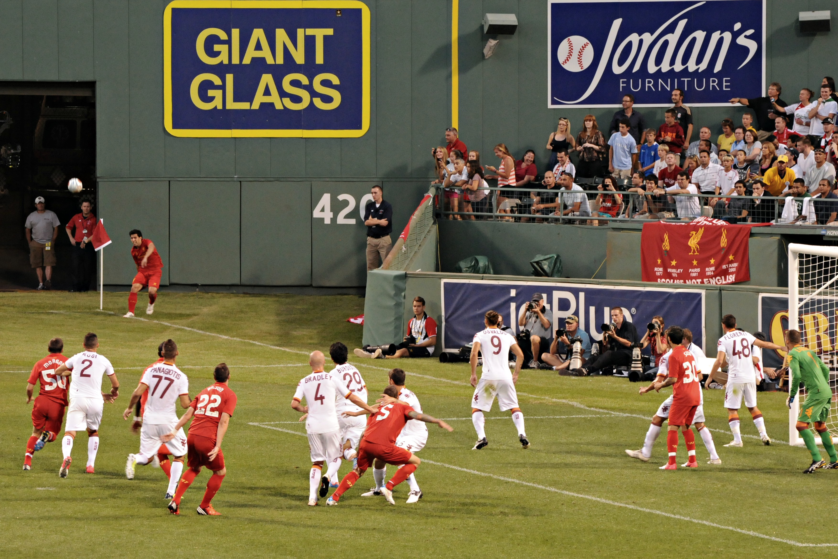 Pacheco takes LFC corner.